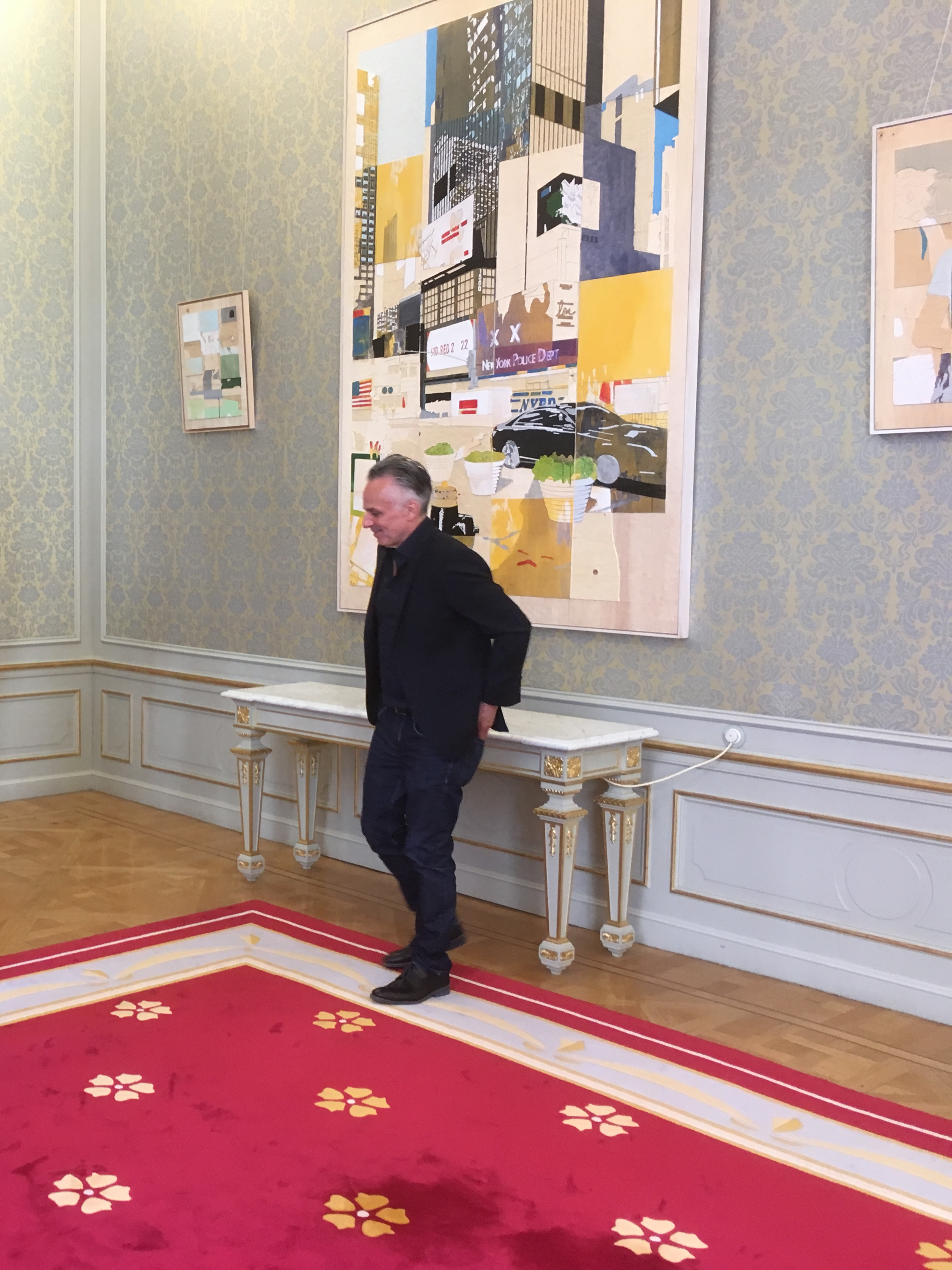 The artist Detlef Waschkau standing in front of his own works of art, during the exhibition 'Dutch and German artists in Schuylenburch House' in The Hague, on 15 and 16 May 2019. Schuylenburch House is the residence of the German ambassador to the Netherlands.